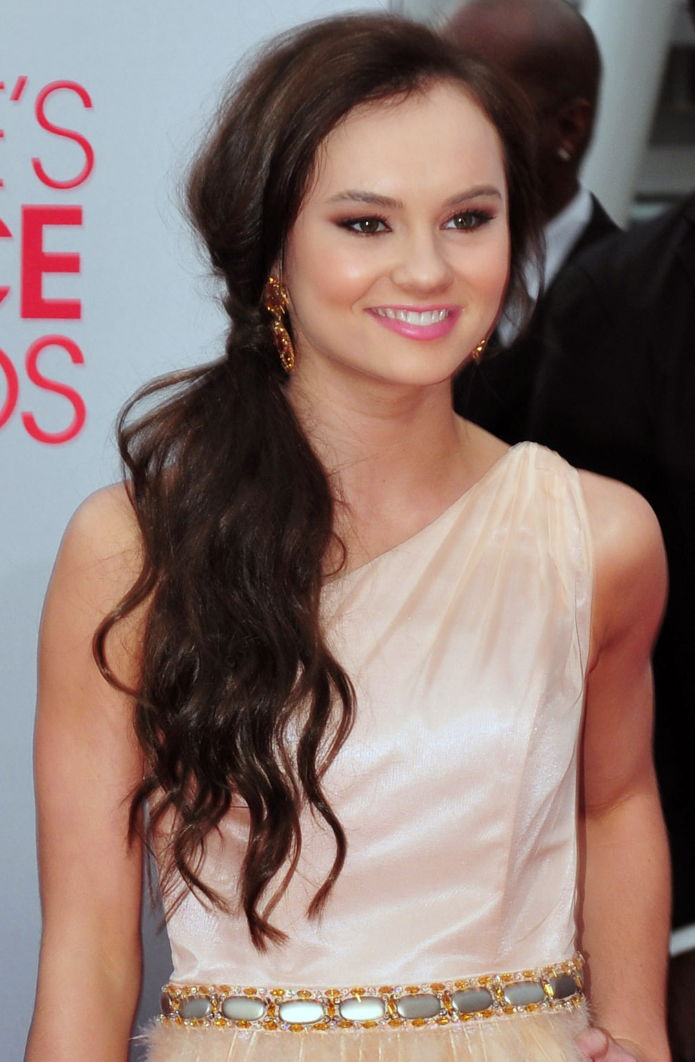 Madeline Carroll at the 38th People's Choice Awards, Red Carpet 2012.